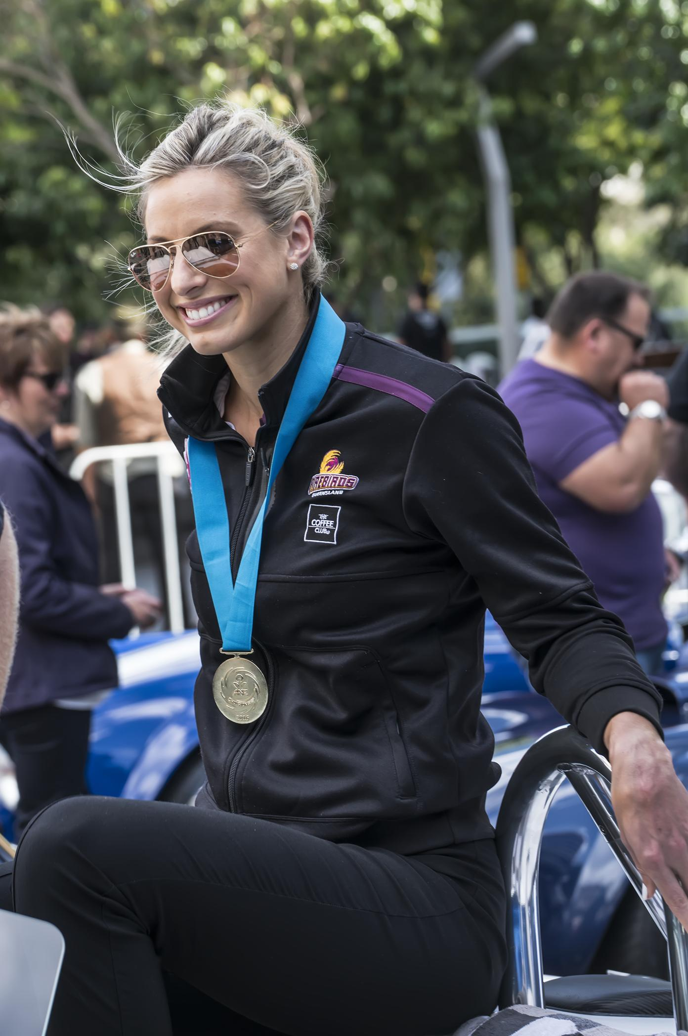 Firebird during ticker tape parade Brisbane